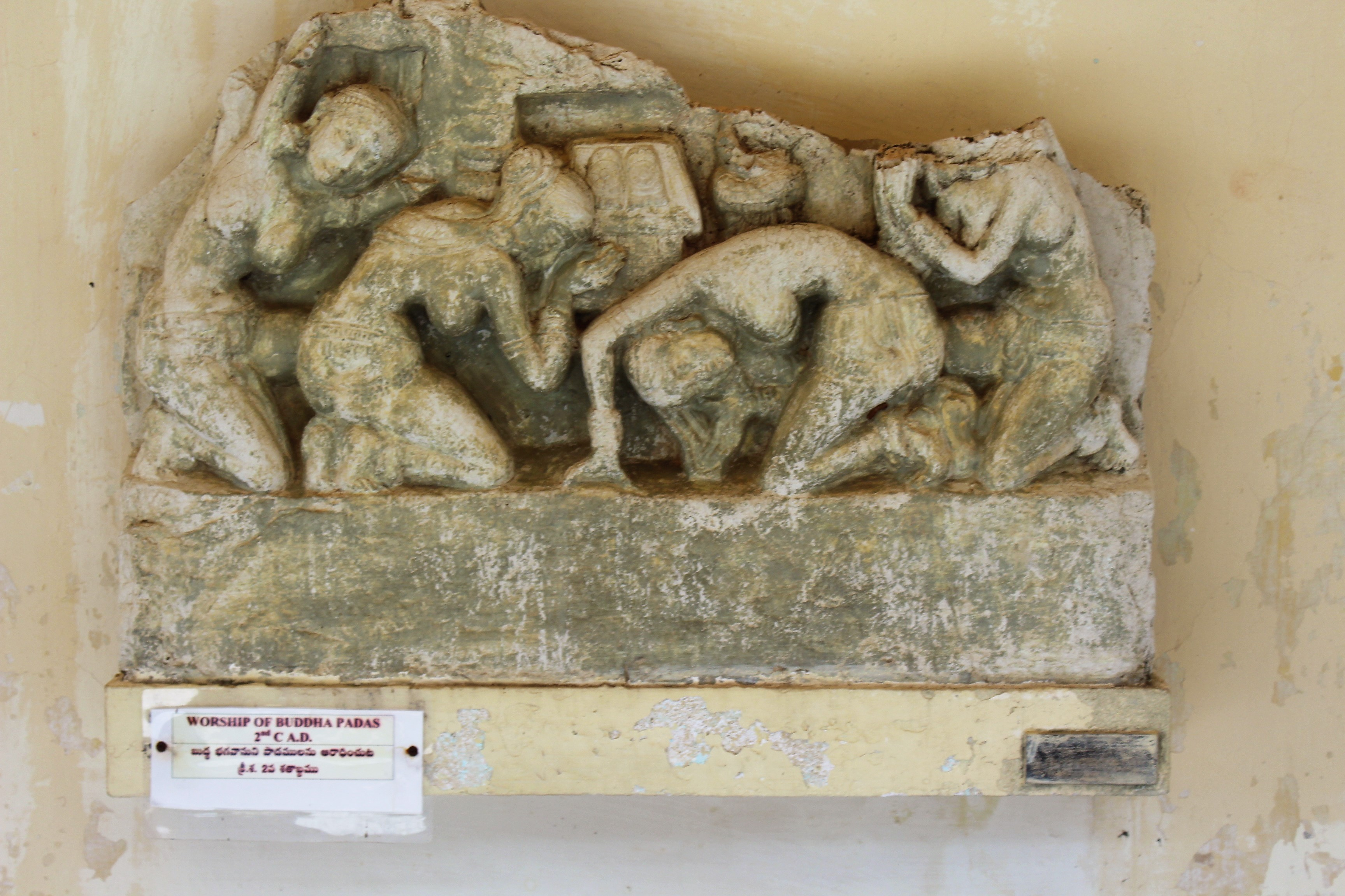 The Amaravati Archaeological Museum is a museum located in Amaravati, a village in Guntur district of the Indian state of Andhra Pradesh.